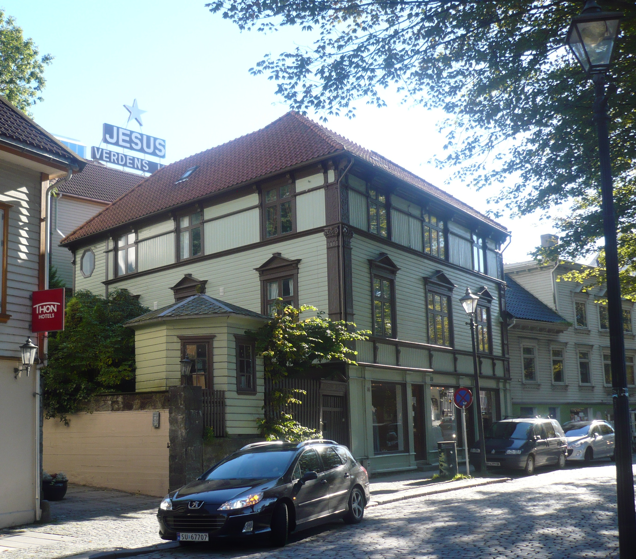 Kongsgata 34 in Stavanger